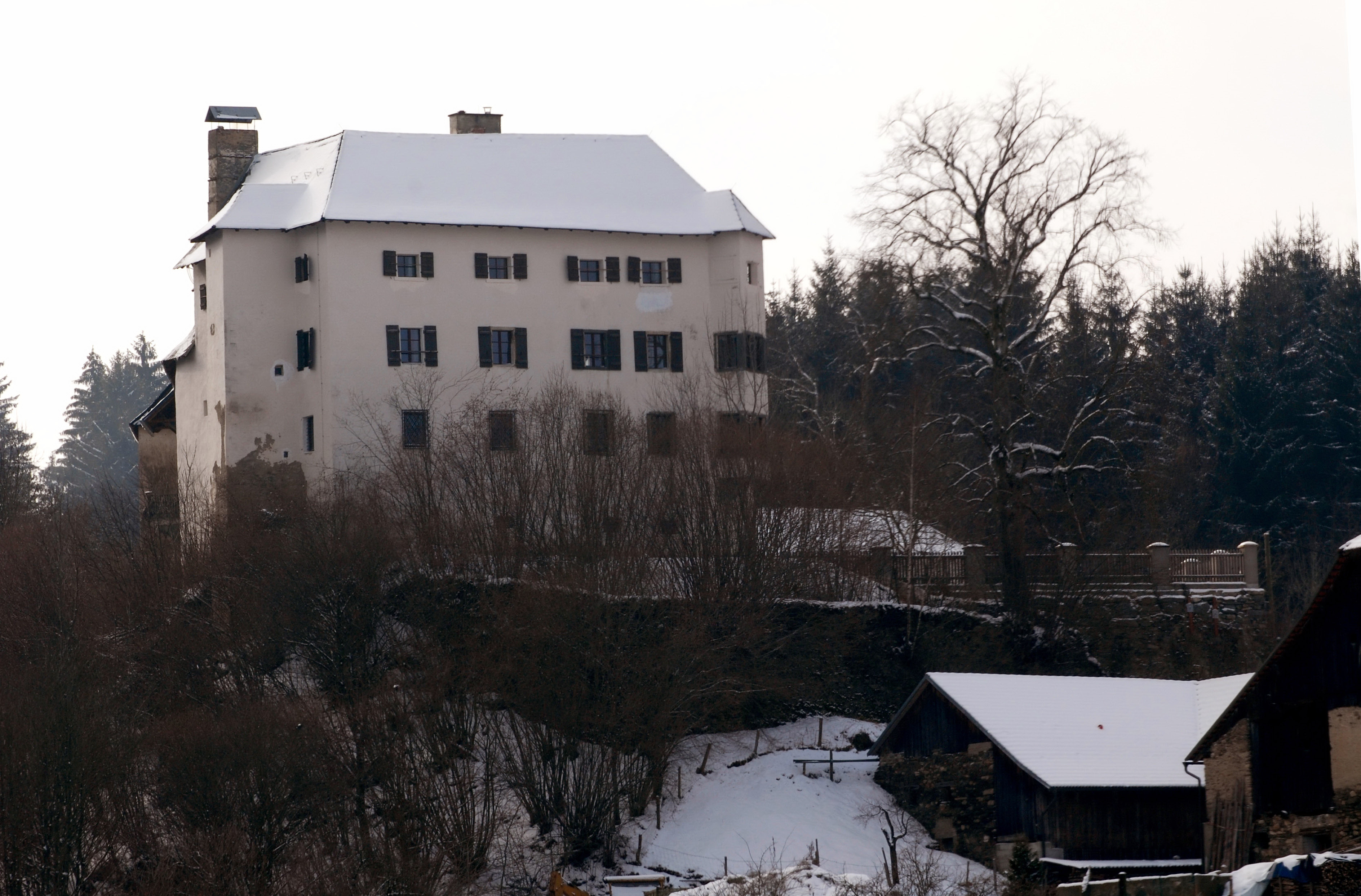 View from north-east at castle Ratzenegg in the municipality Moosburg, district Klagenfurt-Land, Carinthia, Austria